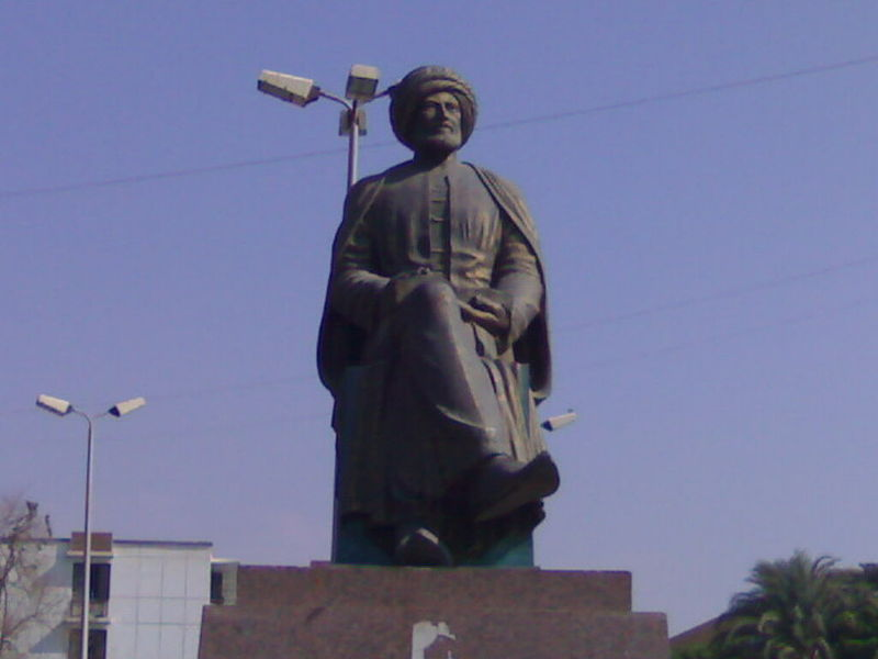 Refa'a El-Tahtawi's Statue in Sohag, Egypt